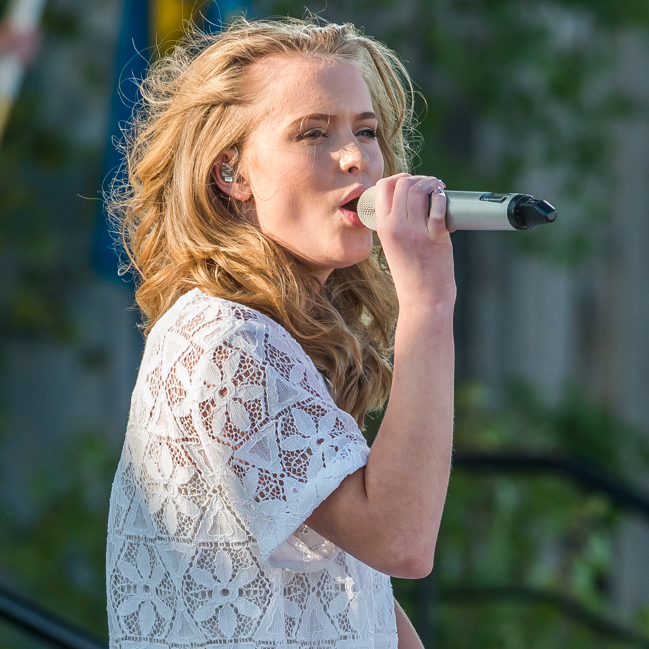 National Day of Sweden at Skansen, Stockholm, June 2015